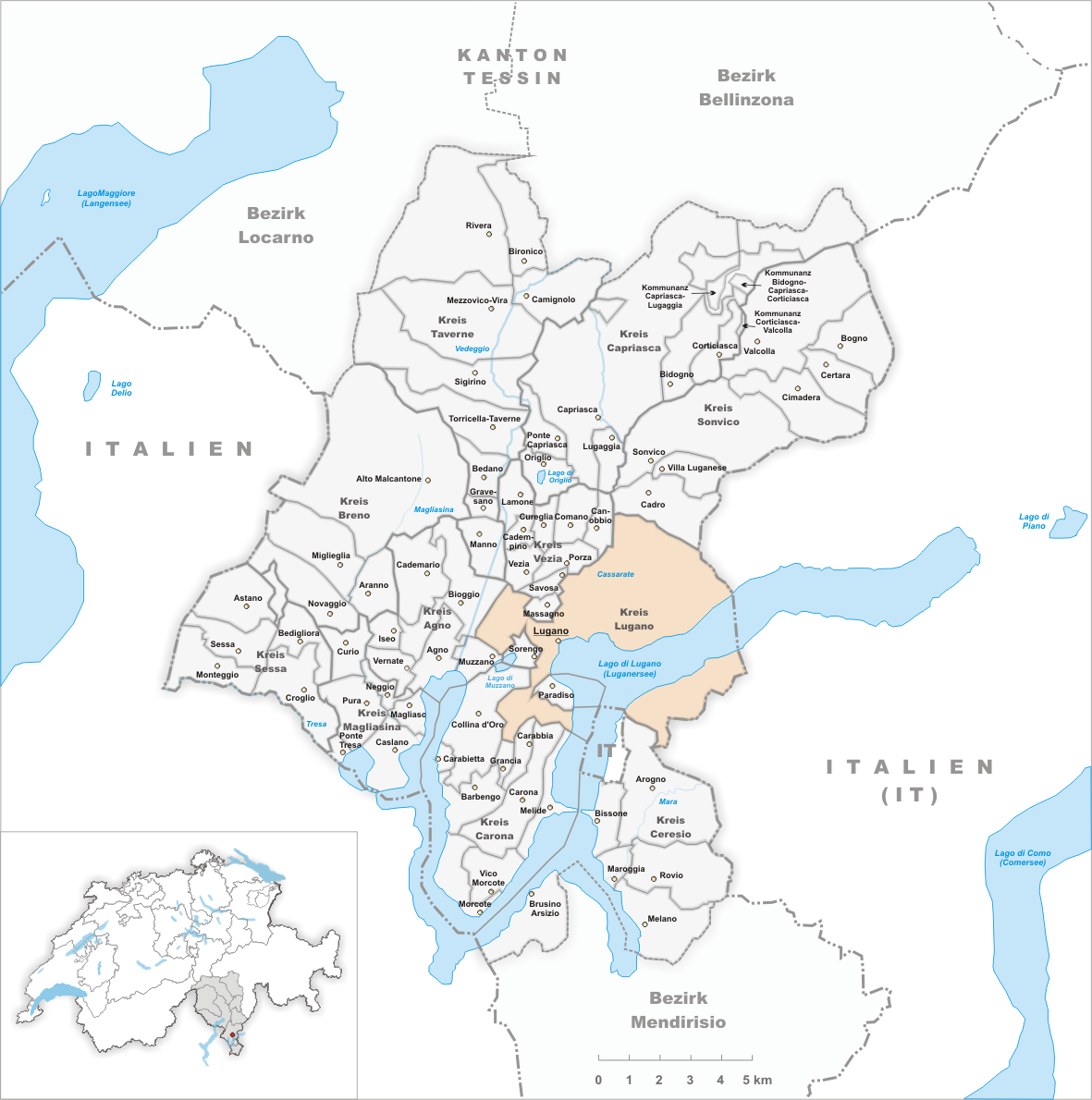 Municipality Lugano